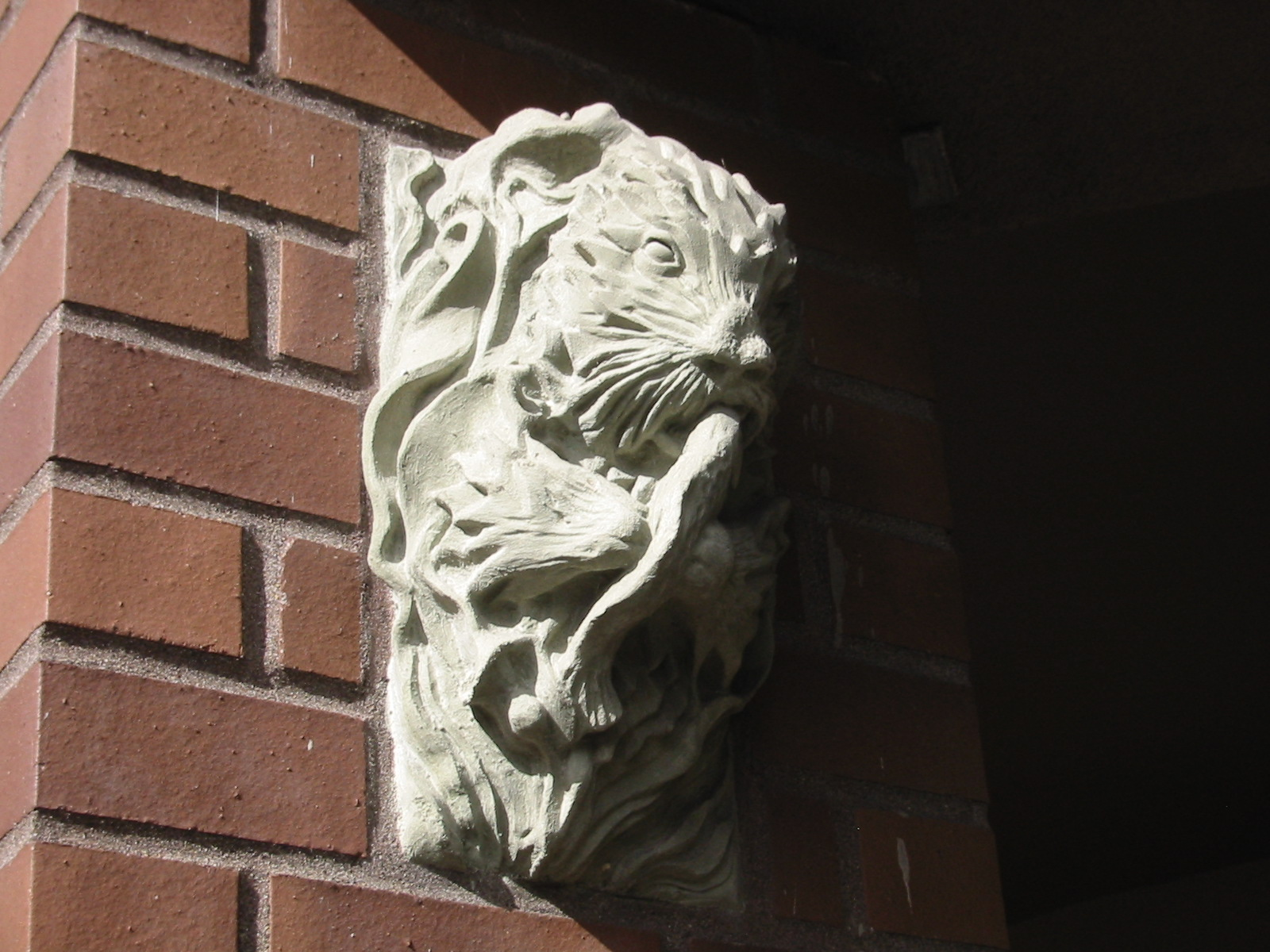 Chimera; otter and fish